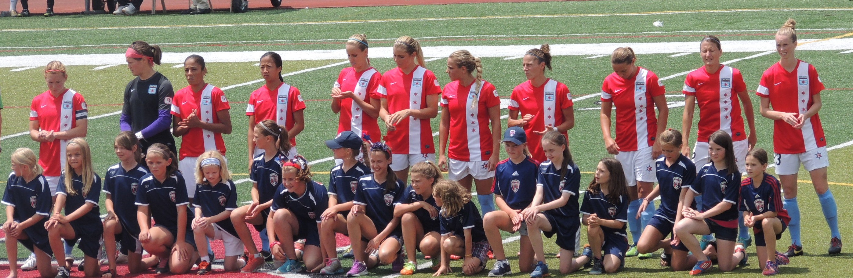 2013-07-04; Chicago Red Stars lineup, vs Western New York Flash